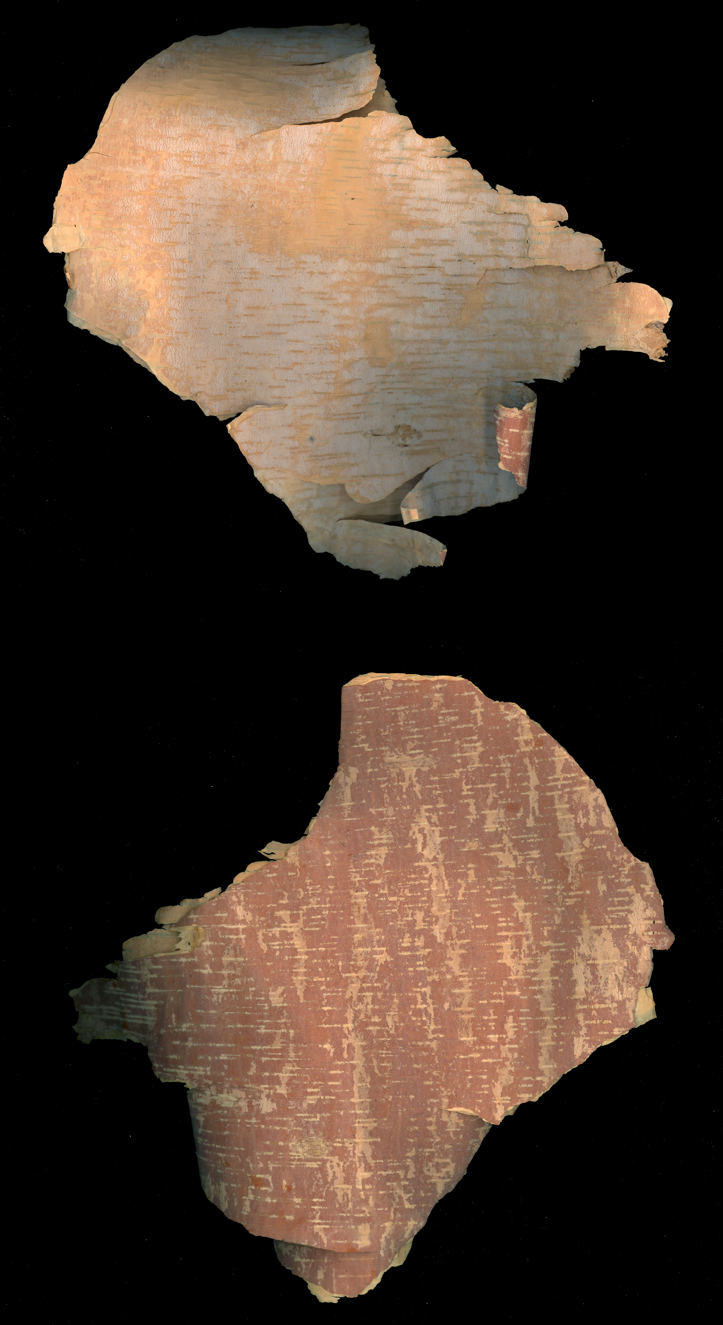 Stitched image showing scan of front and rear of a single piece of birch bark.